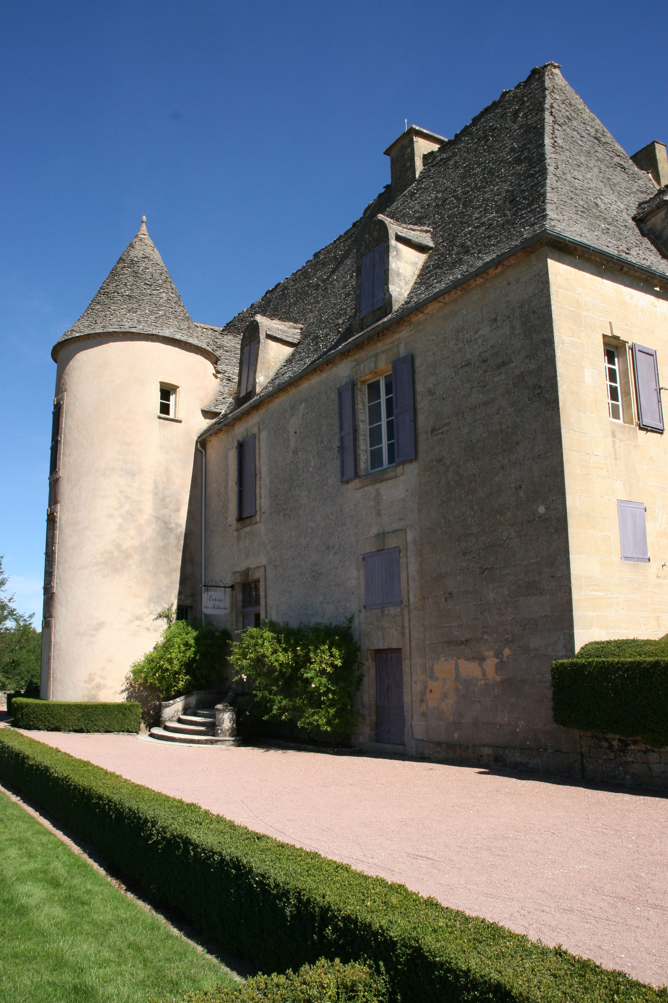 Marqueyssac: Castle